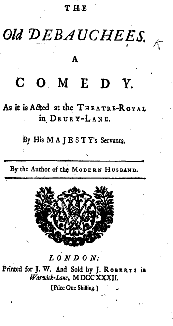 Fielding, Henry. The old debauchees. A comedy. As it is acted at the Theatre-Royal in Drury-Lane. London: Printed for J.W. and sold by J. Roberts, 1732.